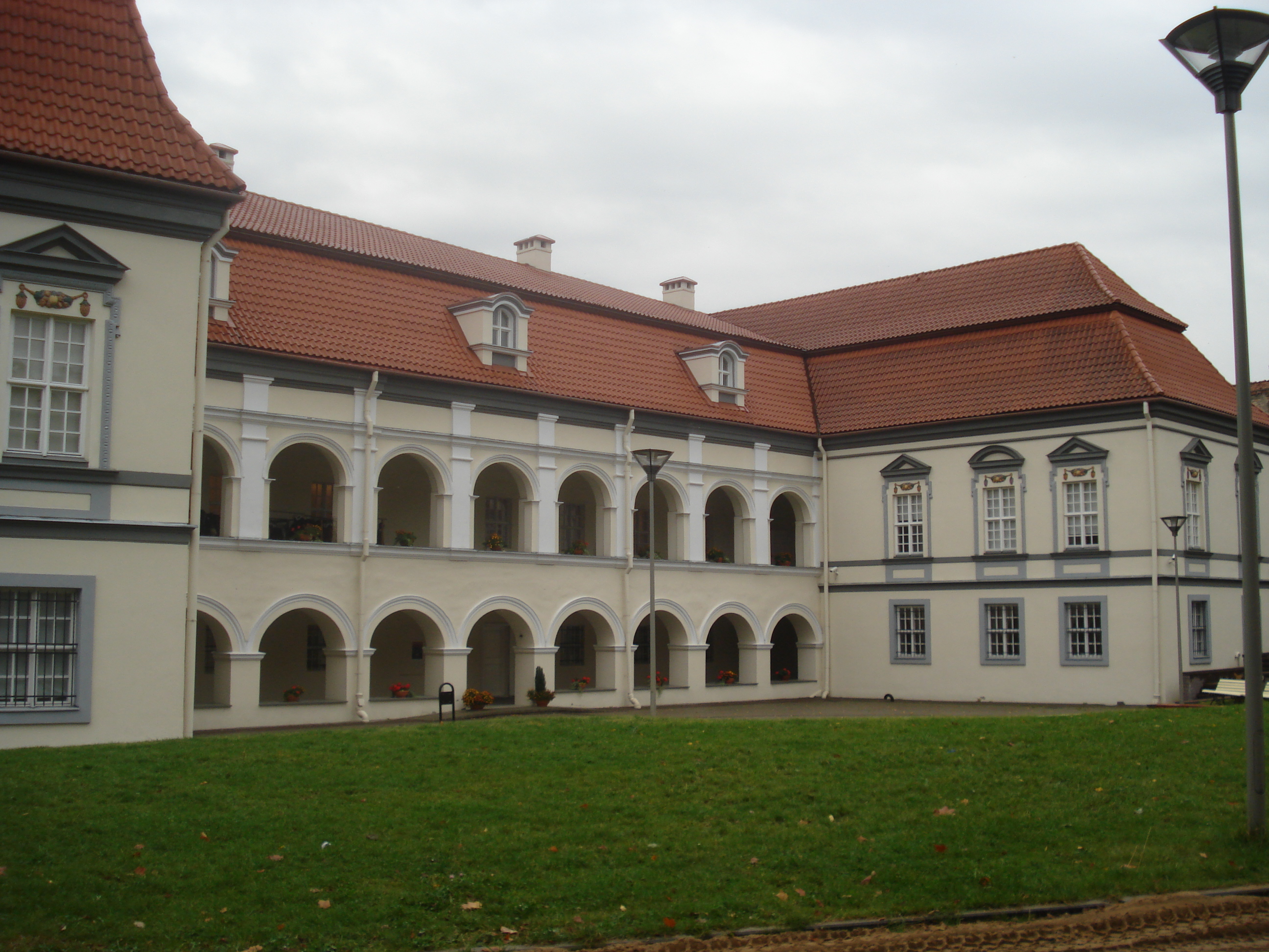 Yard of the Lithuanian Theatre, Music and Film Museum. Former Oskierko Palace in Vilnius